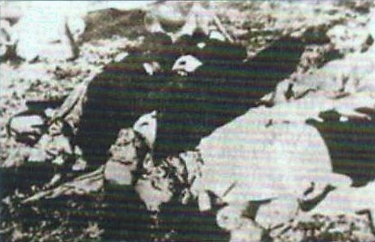 Killed Macedonian civilians by the Bulgarian fascist occupying army in the massacre at Pusta Kula